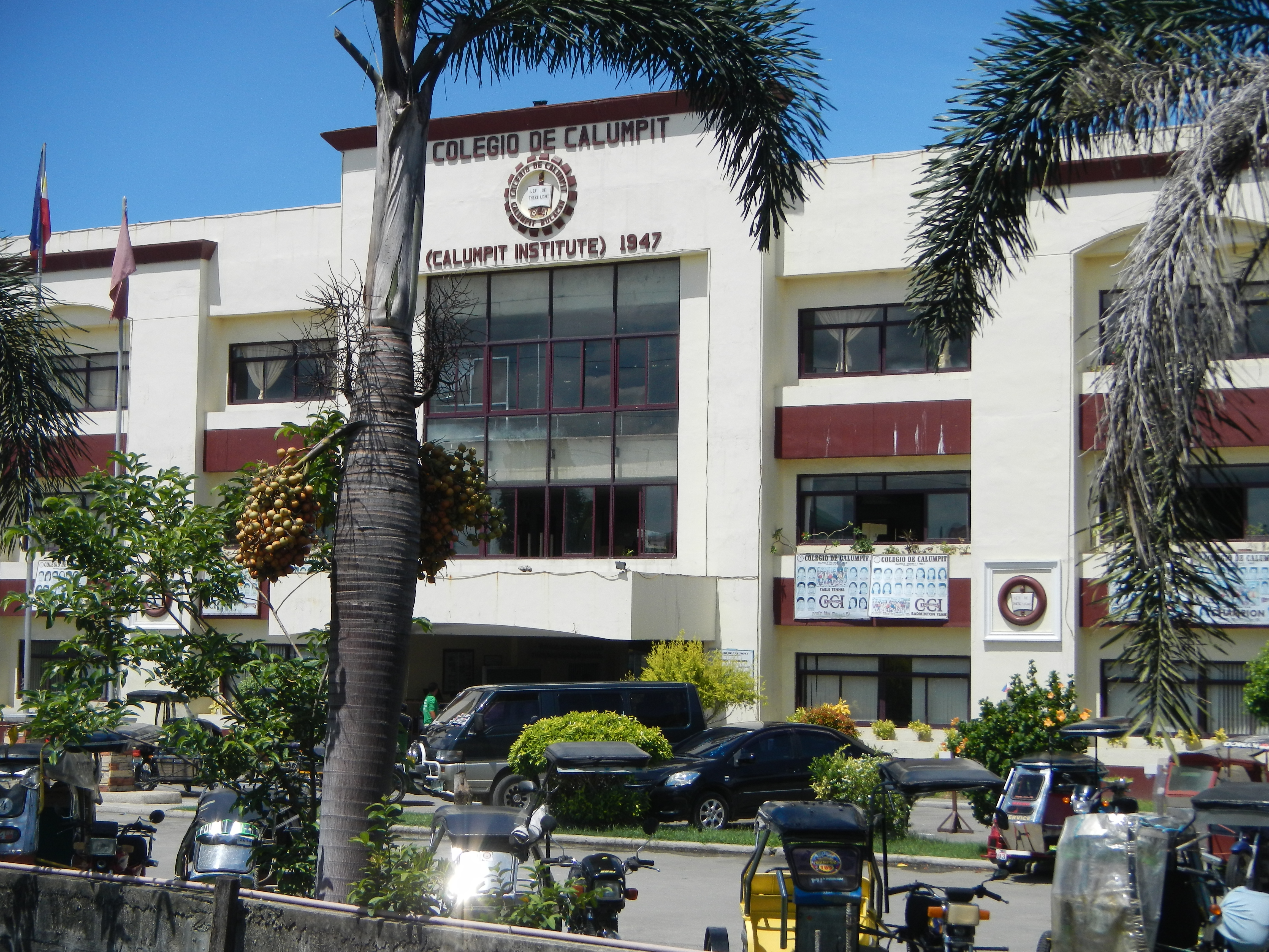 Labangan Bridges #5 K00 49 +100 and Bridge #1 KM 48+500 412 20 Tons limit, over the Calumpit River, including the Calumpit Institute new building, ASM Plaza, Calumpit Baptist Church along MacArthur Highway in Barangay Corazon, Calumpit, Bulacan.